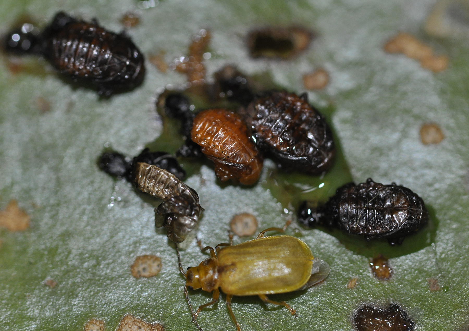 Galerucella nymphaeae (Linnæus, 1758). Germany: Niedersachsen, Klein-Lengden near Göttingen. In a garden habitat.